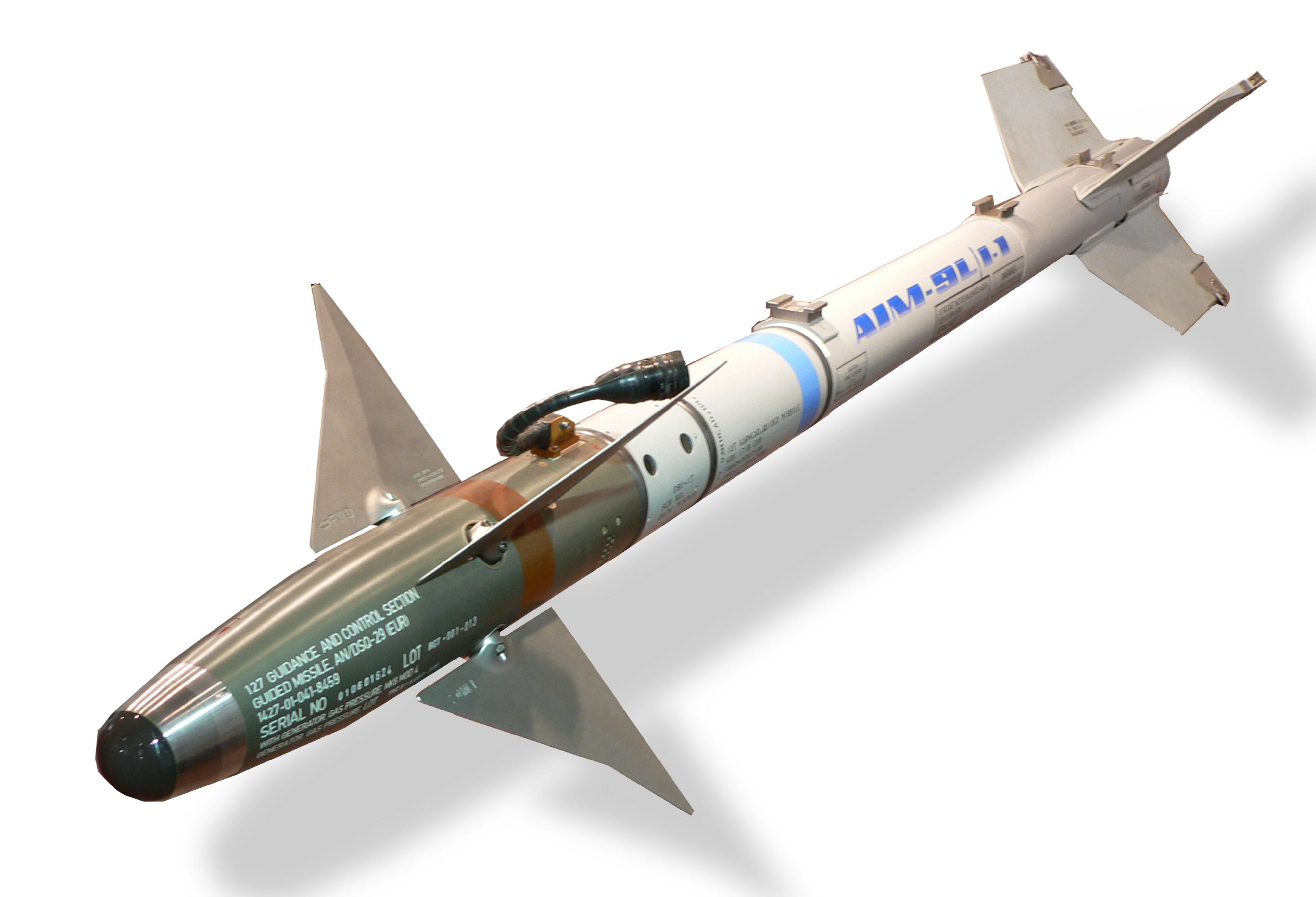 AIM-9L